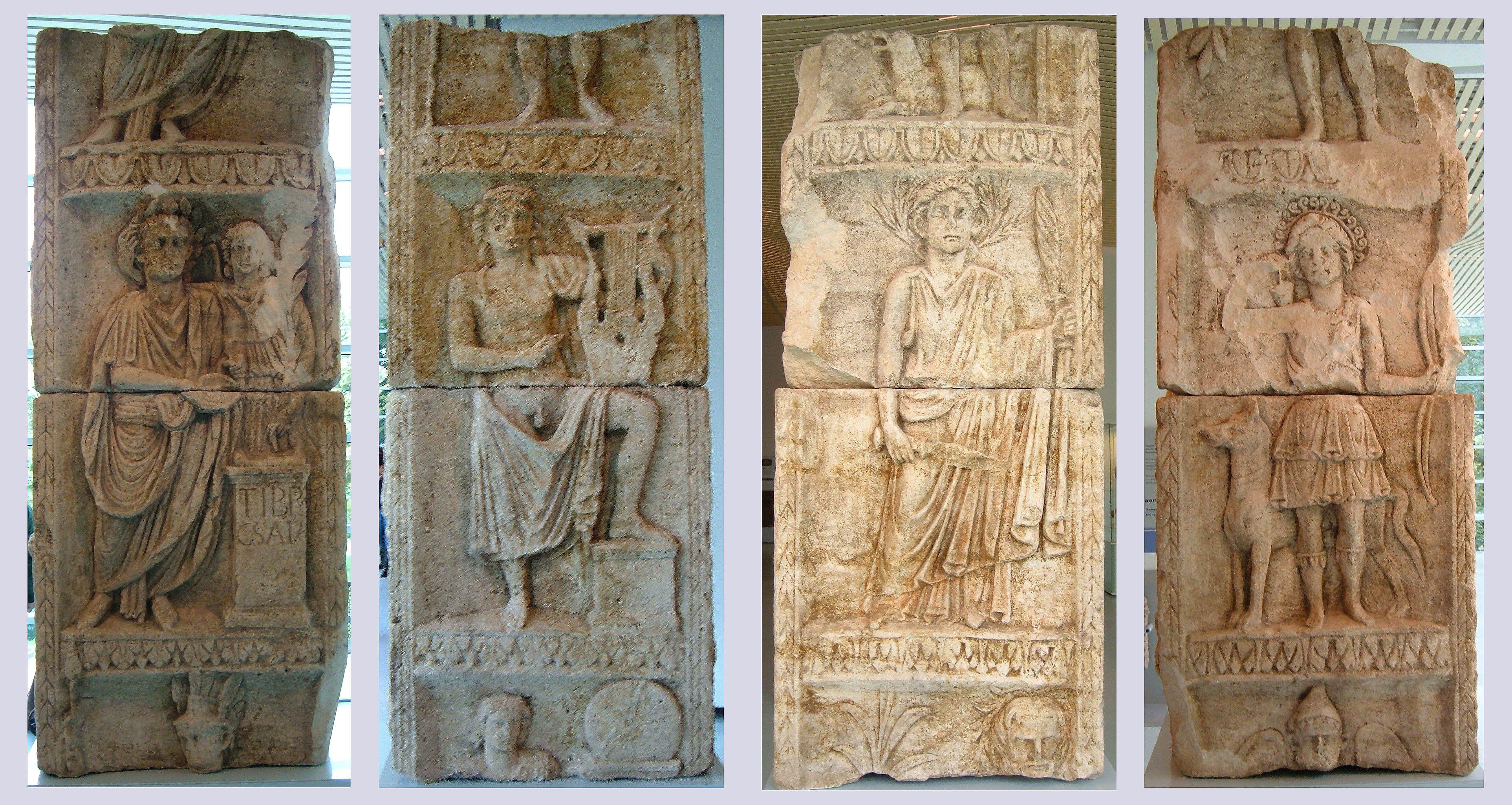 Triumphal column of TIB(e)R(ius) C(ae)SAR. The column must have been 3.5 metres high originally, comprised of at least four blocks. Depicted are (from left to right) Front. Tiberius being crowned by Victoria, whilst making a sacrifice by pouring wine onto an altar. Left. Apollo Back. Ceres Right. Diana. The figure in the Phrygian Cap is taken to be Bacchus Ca 15 AD. Found in Nijmegen, in front of the museum itself in 1980. Museum Het Valkhof, Nijmegen, the Netherlands. Museum Het Valkhof Native nameMuseum Het ValkhofLocationNijmegen Address Kelfkensbos 596511 TB NijmegenNetherlandsCoordinates51° 50′ 47″ N, 5° 52′ 16″ E Established1999Web page control : Q1127079 VIAF: 158715438 ISNI: 0000 0004 0533 6734 LCCN: no2002025807 GND: 5519052-2 SUDOC: 075891700 WorldCat institution QS:P195,Q1127079